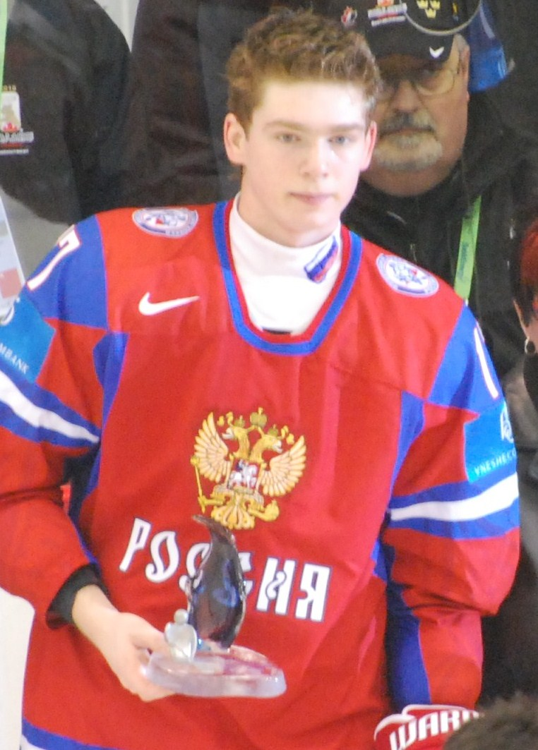 Evgeny Kuznetsov accepts his player of the game award after a game against Austria during the 2010 World Junior Hockey Championships